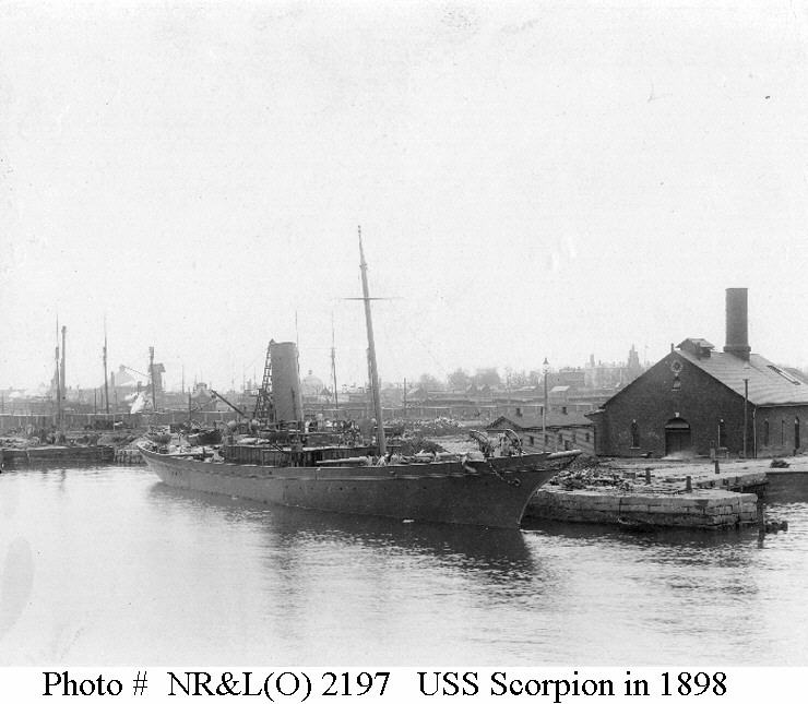 United States Navy steam yacht USS Scorpion (PY-3) at the New York Navy Yard, Brooklyn, New York, ca. April 1898